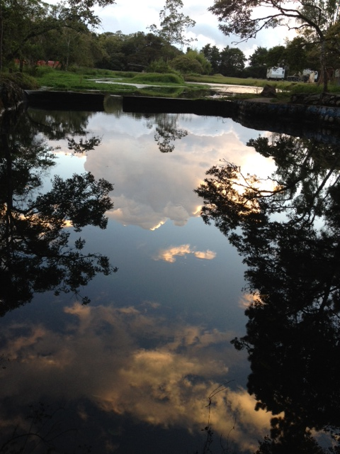 Balneario Las Fuentes en Volcán, nacimiento del río Gariché